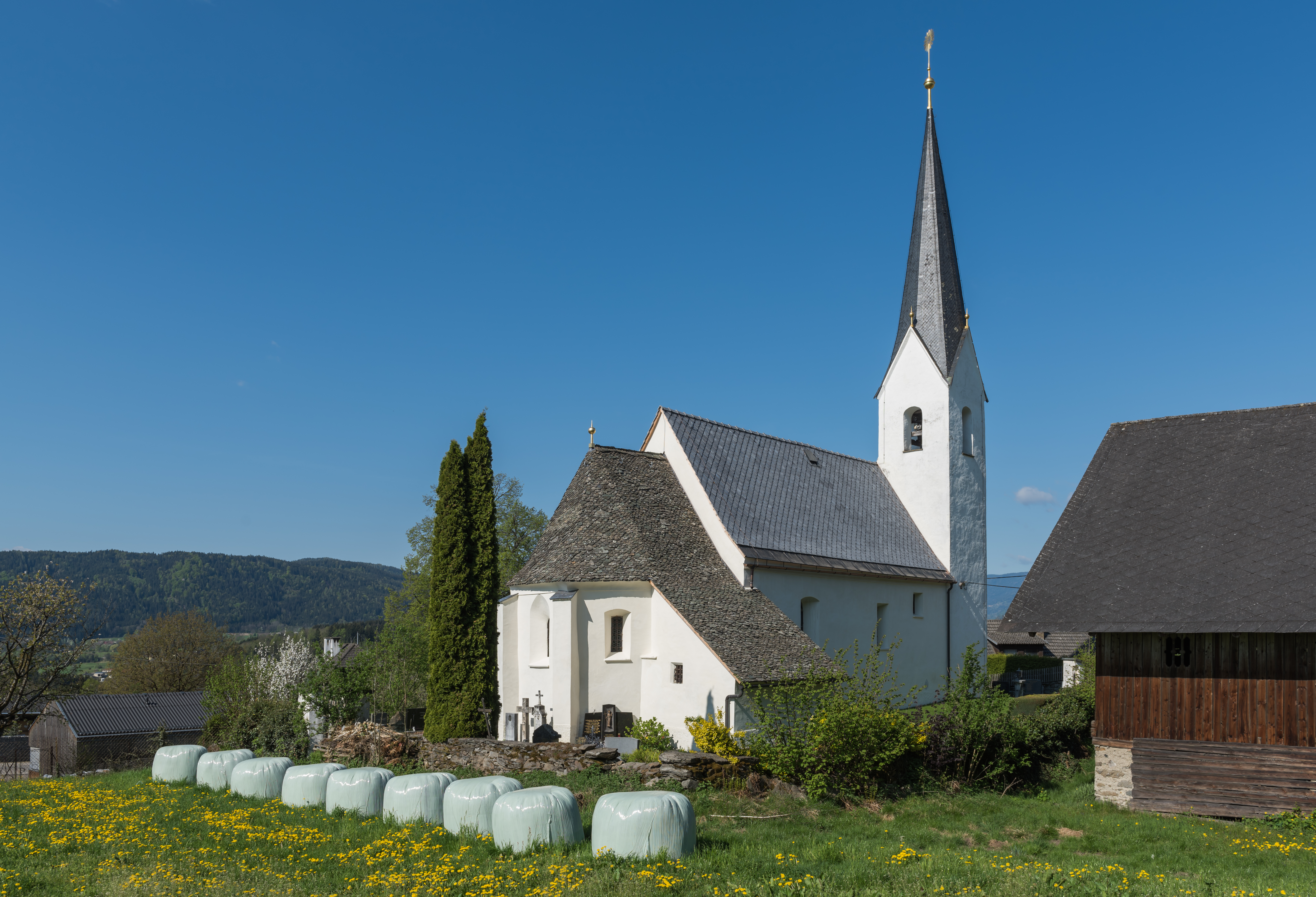 Parish church Saint Vitus (and Saint Martin) in Klein St. Veit, municipality Feldkirchen in Kärnten, district Feldkirchen, Carinthia, Austria, EU